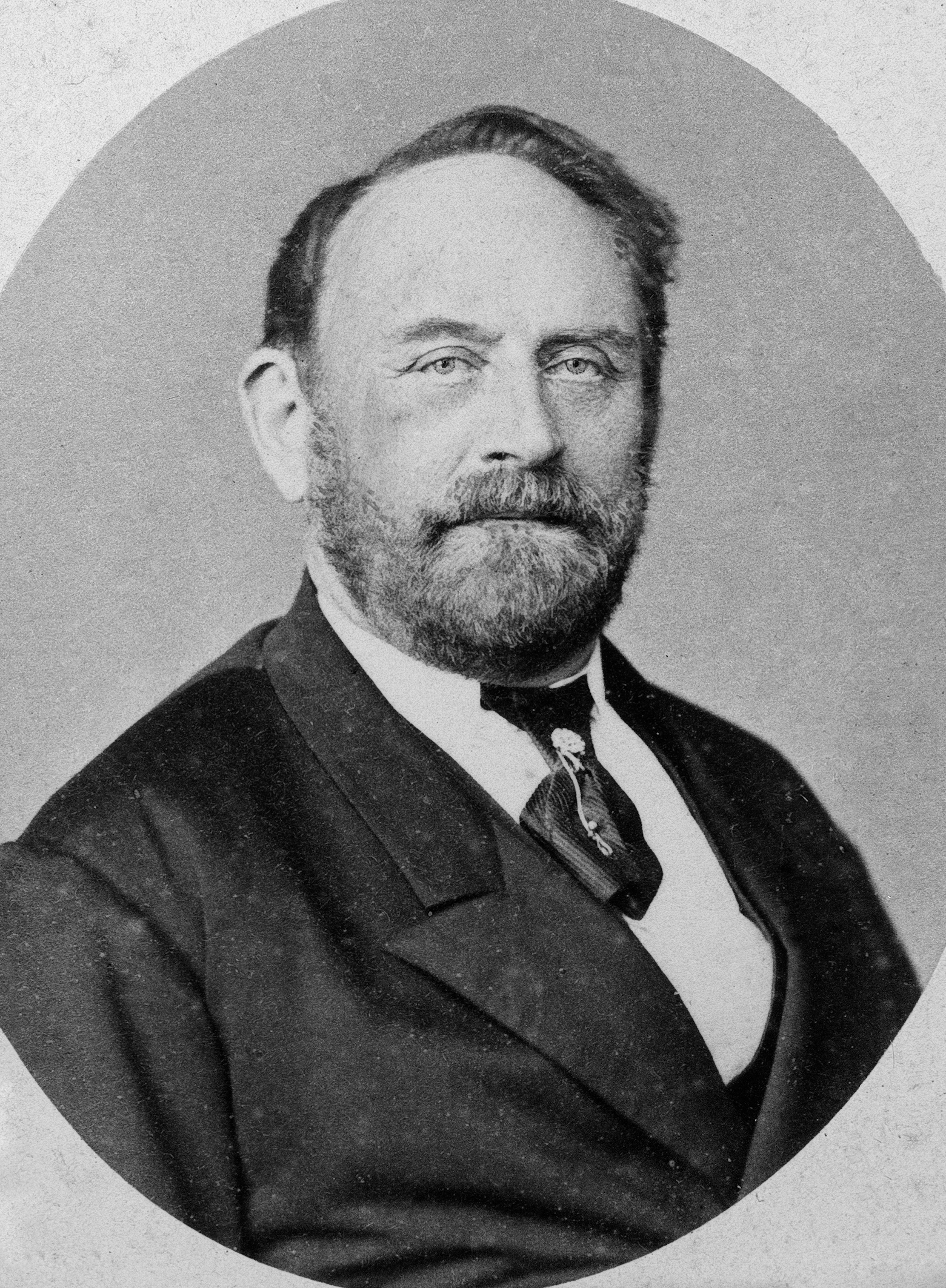 Melchior von der Decken (1806-1880) Amtmann in Bergen bei Celle